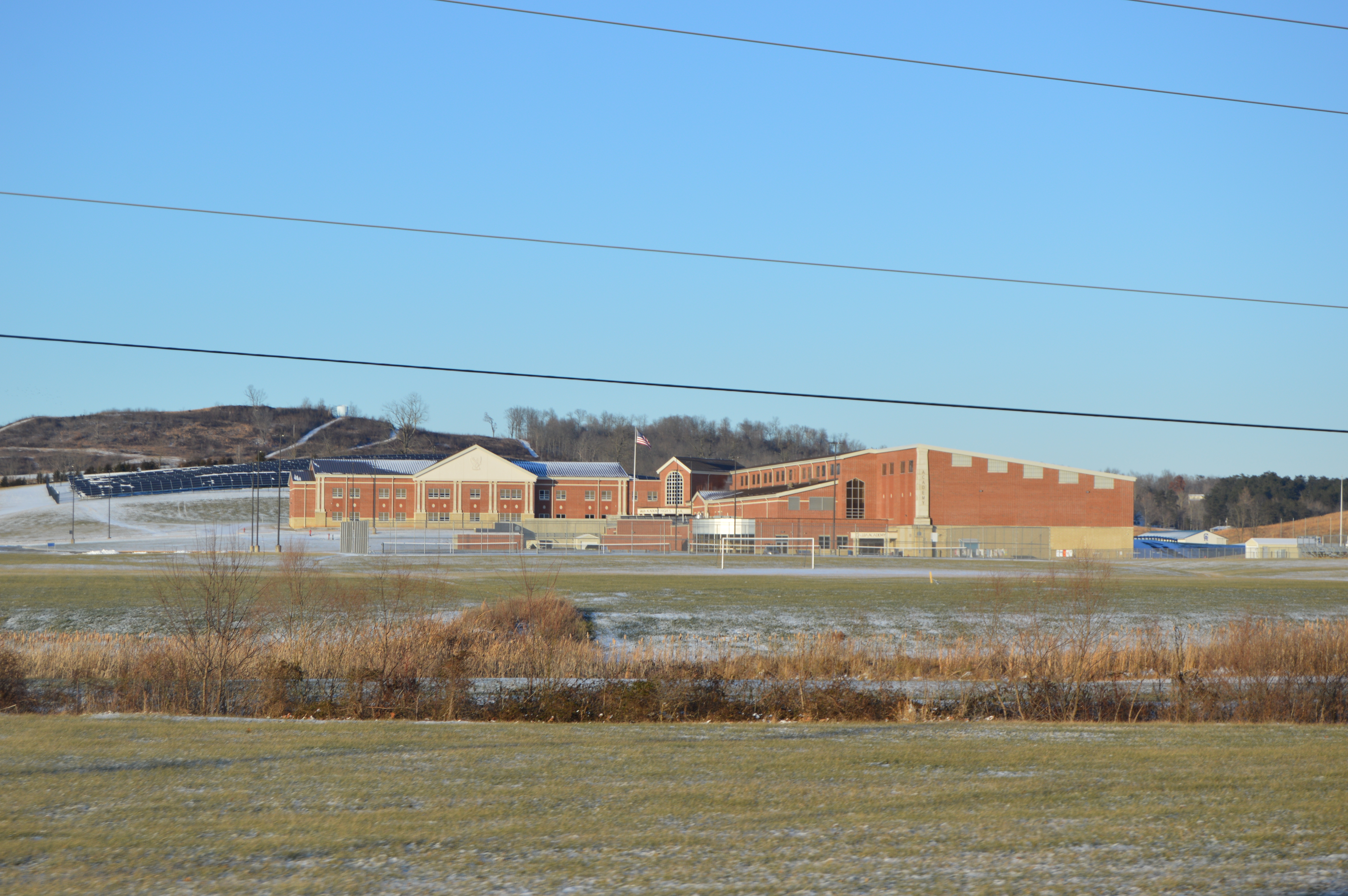 Distant view from State Route 141 of Gallia Academy High School, located at Centenary in Green Township, Gallia County, Ohio, United States.